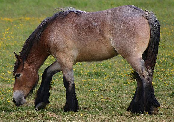 Belgian draft horse, Denmark